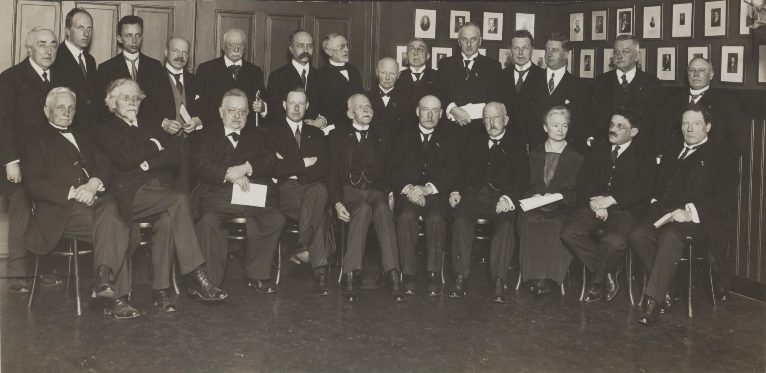 Natuurkundig Genootschap in Groningen (1926)